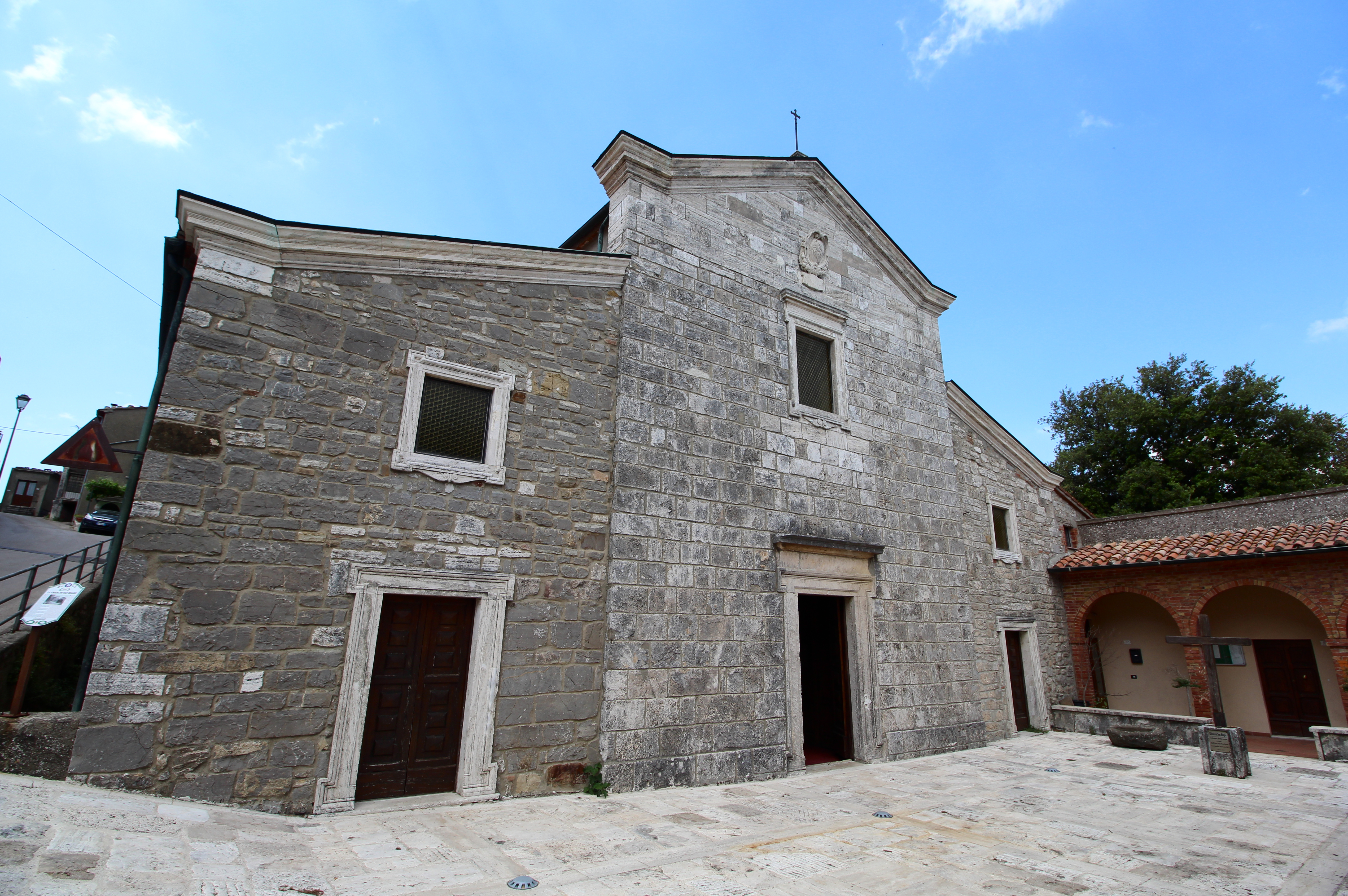 Church San Biagio, Campiglia d’Orcia, hamlet of Castiglione d’Orcia, Province of Siena, Tuscany, Italy